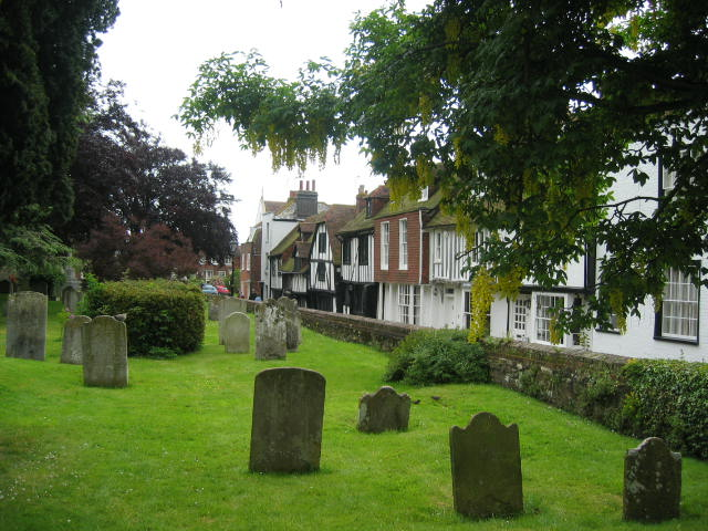 Church precincts of - Tilling (Rye)